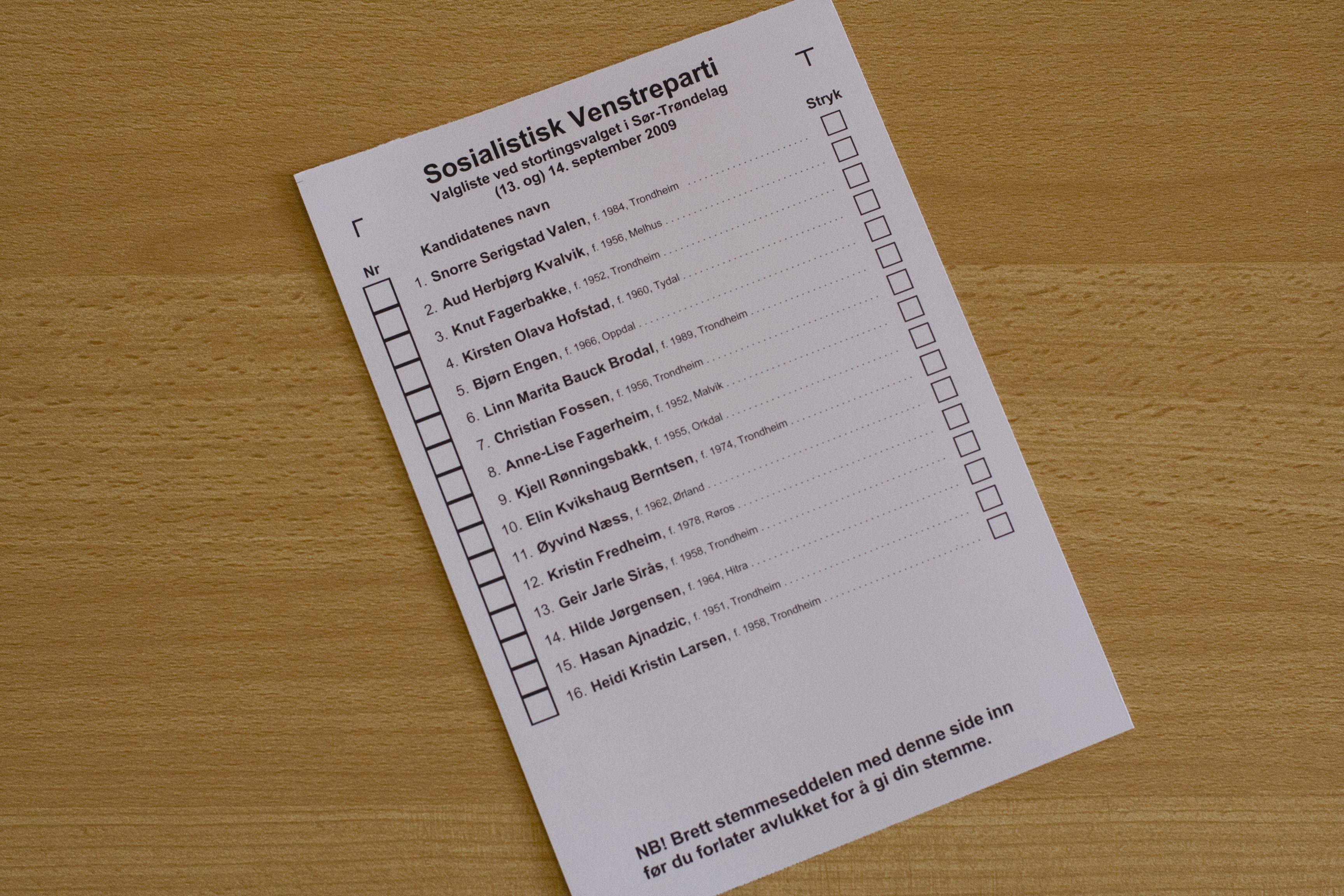 SVs stemmeseddel 2009